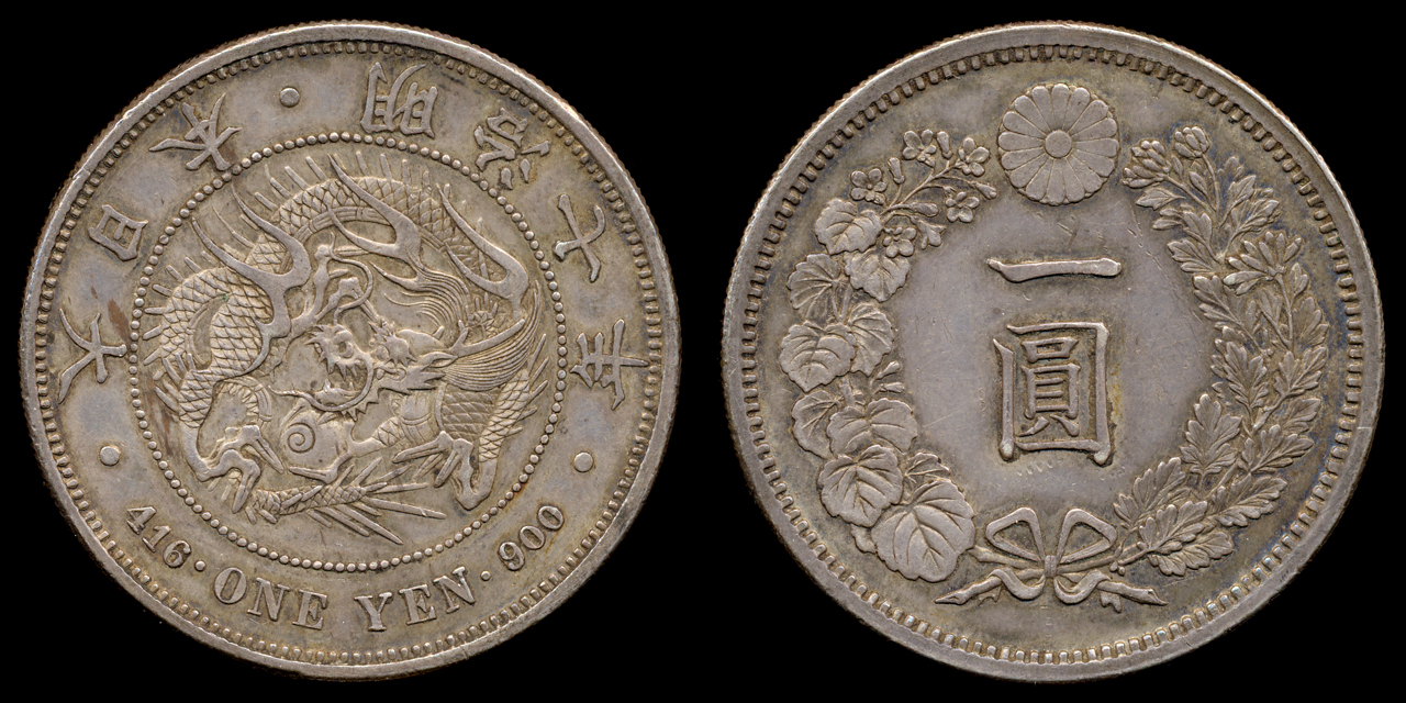 1yen-M7-silver